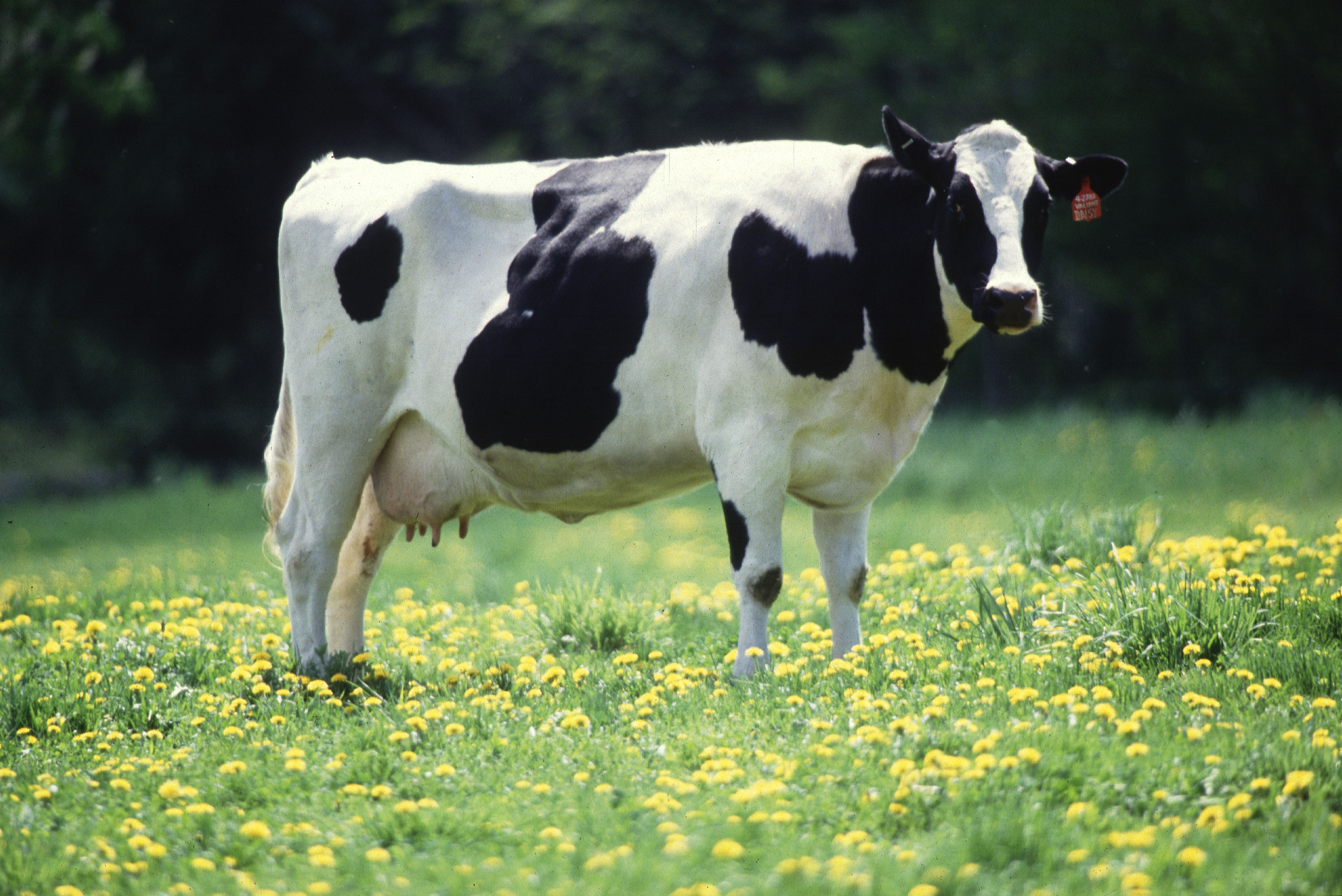 Holstein-Friesian milk cow Because much of the cost of a cow is the feed and labor needed to maintain her, fewer but higher yielding cows mean lower priced milk. Dairy herd improvement ultimately benefits consumers. That's why it's just as important to keep complete and accurate records as it is to keep the cows contented. The National Cooperative Dairy Herd Improvement Program has been tracking Bossy's milk yields since 1905. Over the years, this program has made enormous contributions to dairy cattle breeding. ARS scientists receive the lactation records of all herds enrolled in the program and use the figures to rank the bulls that sire the nation's dairy cows and to rank the cows themselves. The results of years and years of scientific dairying? Milk production has been trending upward for more than 25 years in the United States-from about 117,000 million pounds in 1970 to more than 150,000 million pounds in 1994-even though the number of milk cows has been reduced.